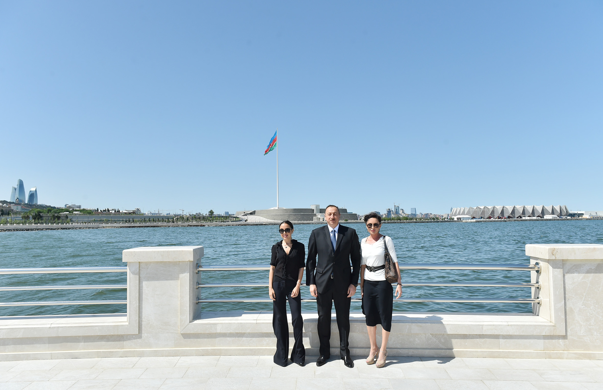 Leyla Əliyeva with her parents - Ilkham Aliyev (president of Azerbaijan) and Mehriban Aliyeva (first lady)